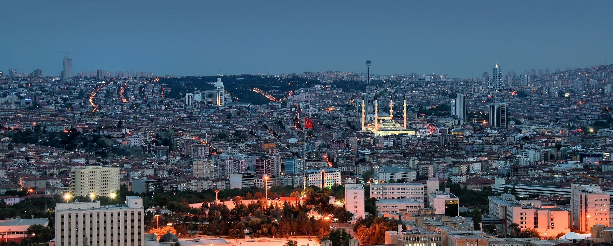 Ankara at night